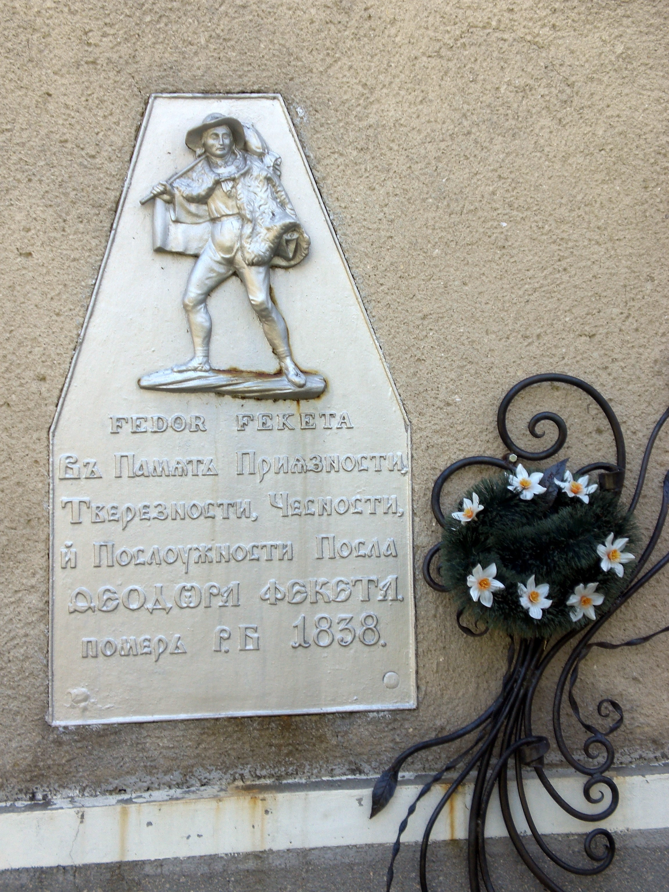 Memorial plaque to postman Fedor Feketa in the village Turi Remety, Zakarpattia, Ukraine (1838)